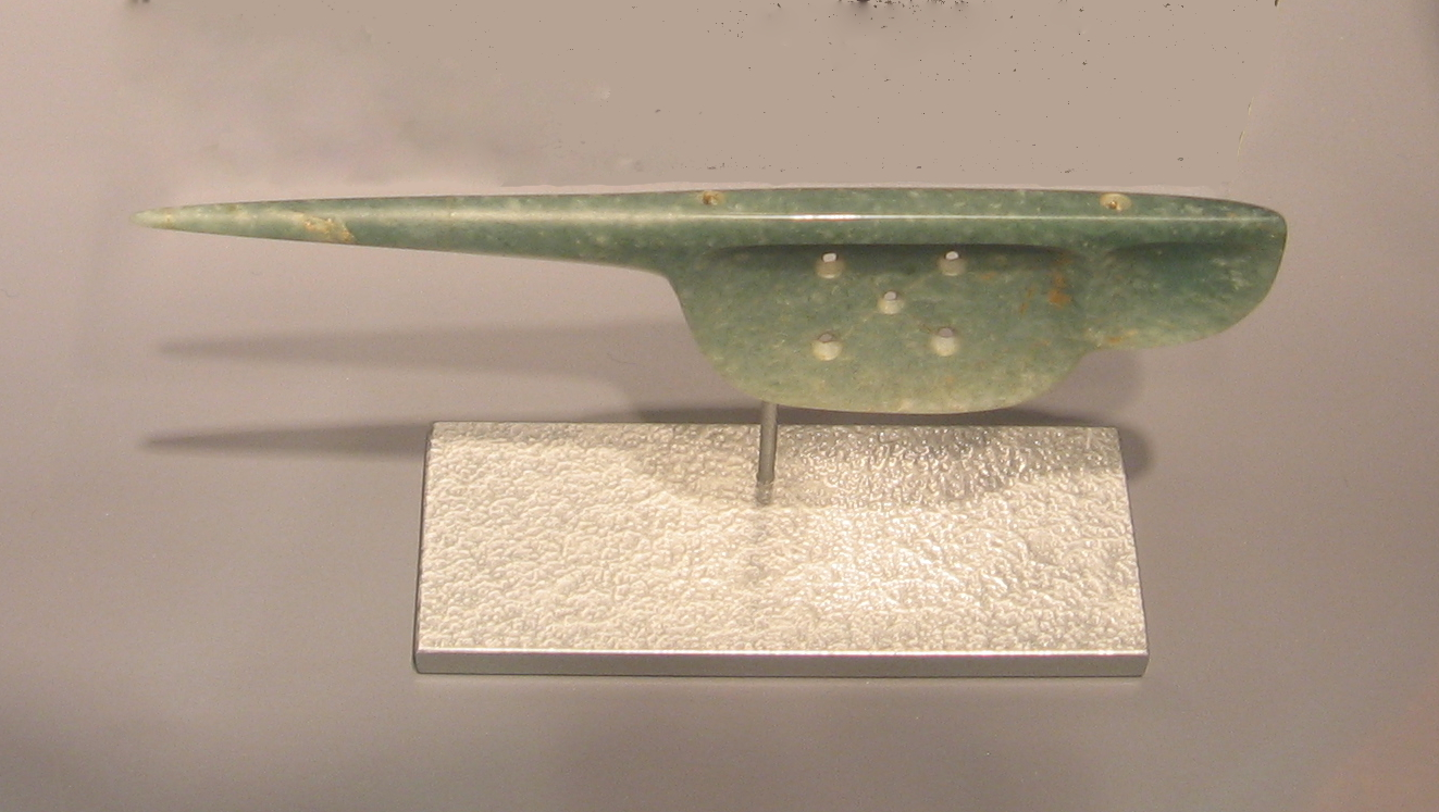 An Olmec-style "spoon" possibly used for bloodletting. From Snite Museum of Art.